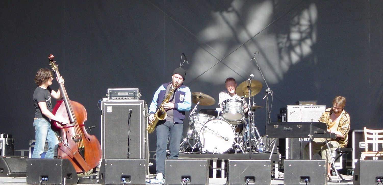 Jonas Kullhammar Quartet, playing at Accelerator The Big One in Stockholm 2004.